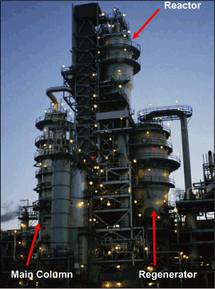 Photo of a typical fluid catalytic cracker used in a petroleum refinery. Other information The photo was included in Exhibit 99.1 of the 8-K filing of the Valero Energy Corporation/TX, dated July 6, 2007, provided to the Securities and Exchange Commission (SEC) which is an agency of the U.S. Federal Government.